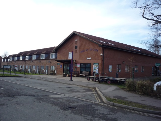 photograph of Haliax College, York